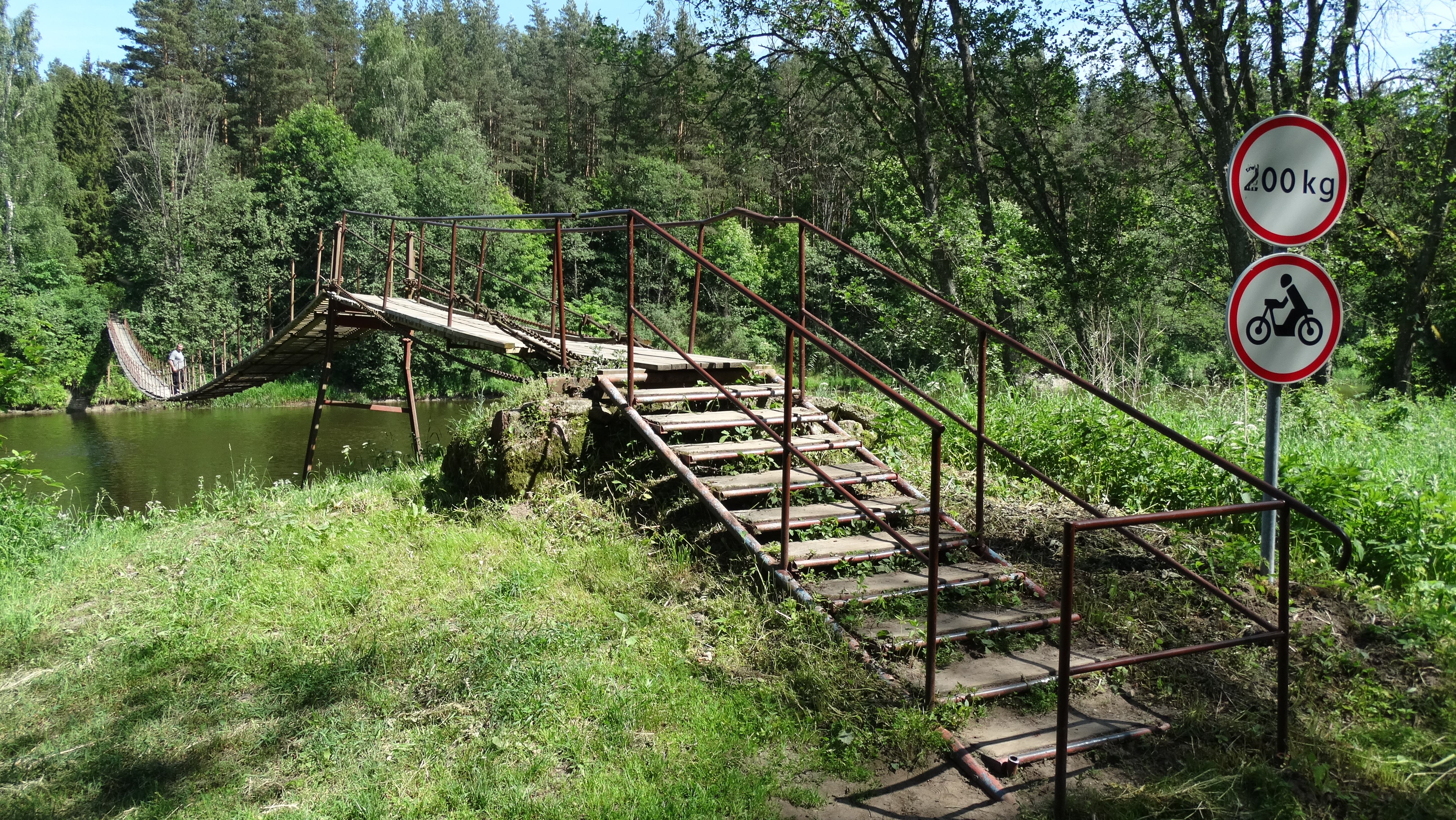 Suspension footbridge on the Neris River, Buivydžiai, Vilnius District, Lithuania